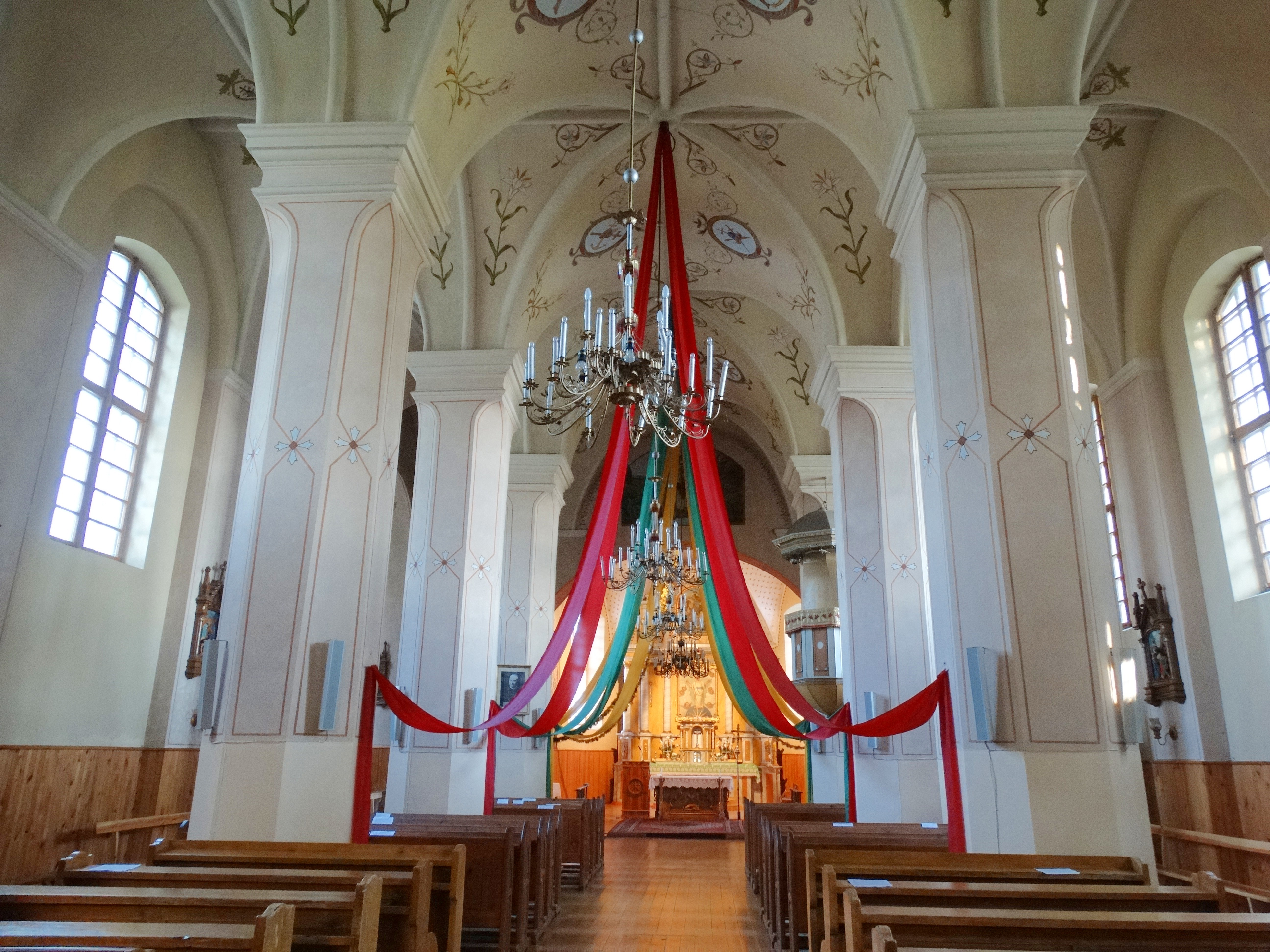 St. George church, Vyžuonos, Utena District, Lithuania